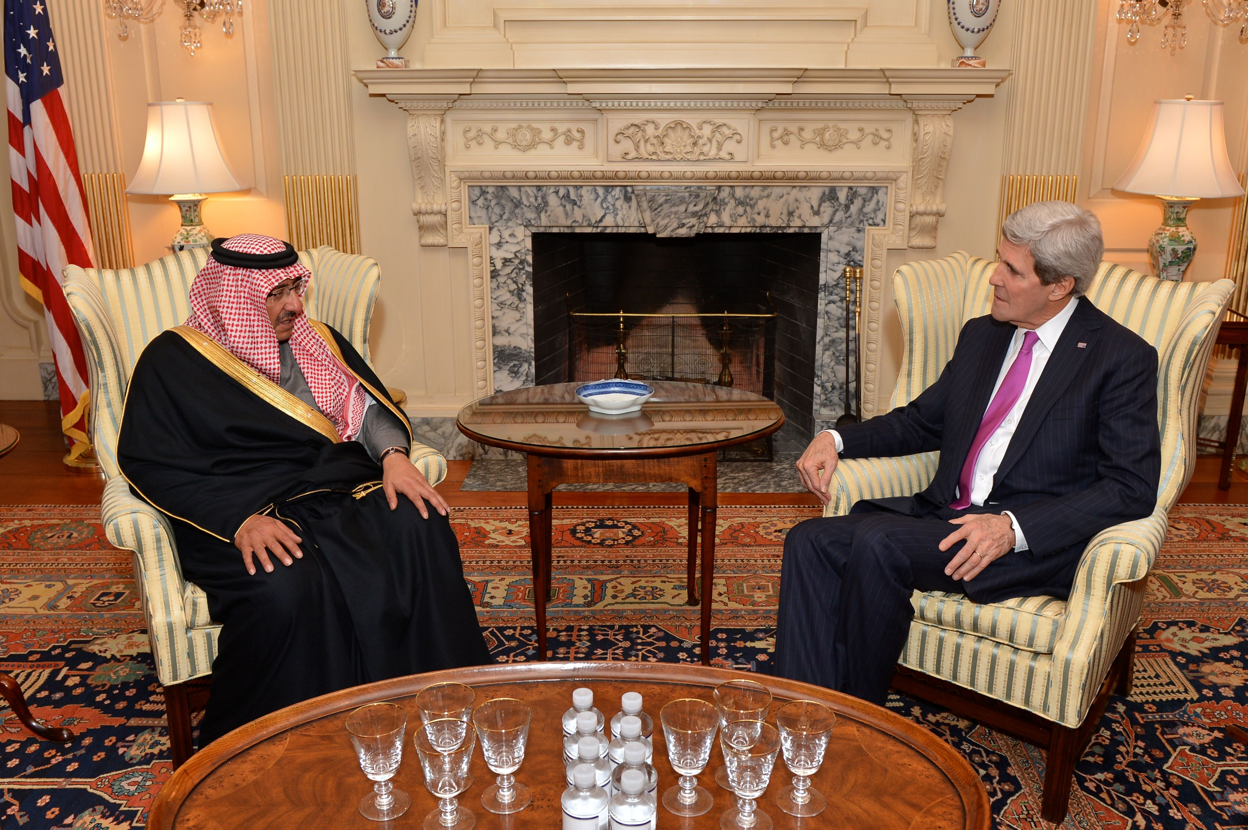 U.S. Secretary of State John Kerry meets with Saudi Interior Foreign Minister Mohammed bin Nayef at the U.S. Department of State in Washington, D.C., on February 11, 2014. [State Department photo/ Public Domain]